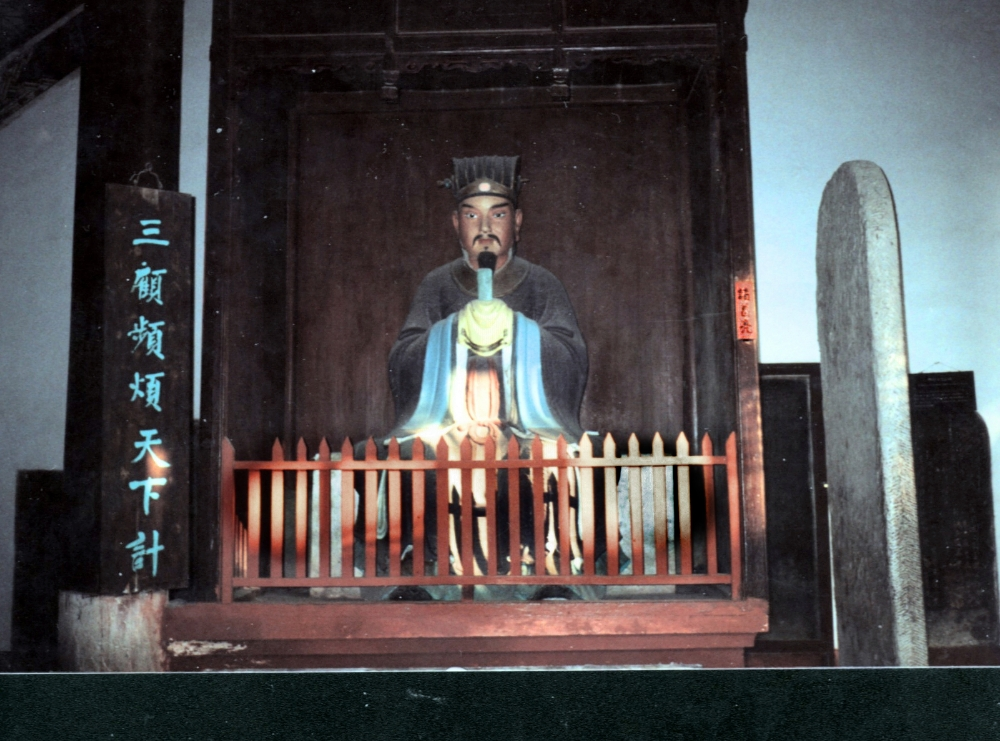 Zhuge Liang in Baidi city 白帝庙内武侯寺内供奉蜀相诸葛亮塑像